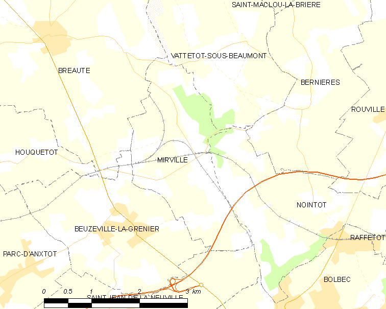 Map of French municipality Mirville